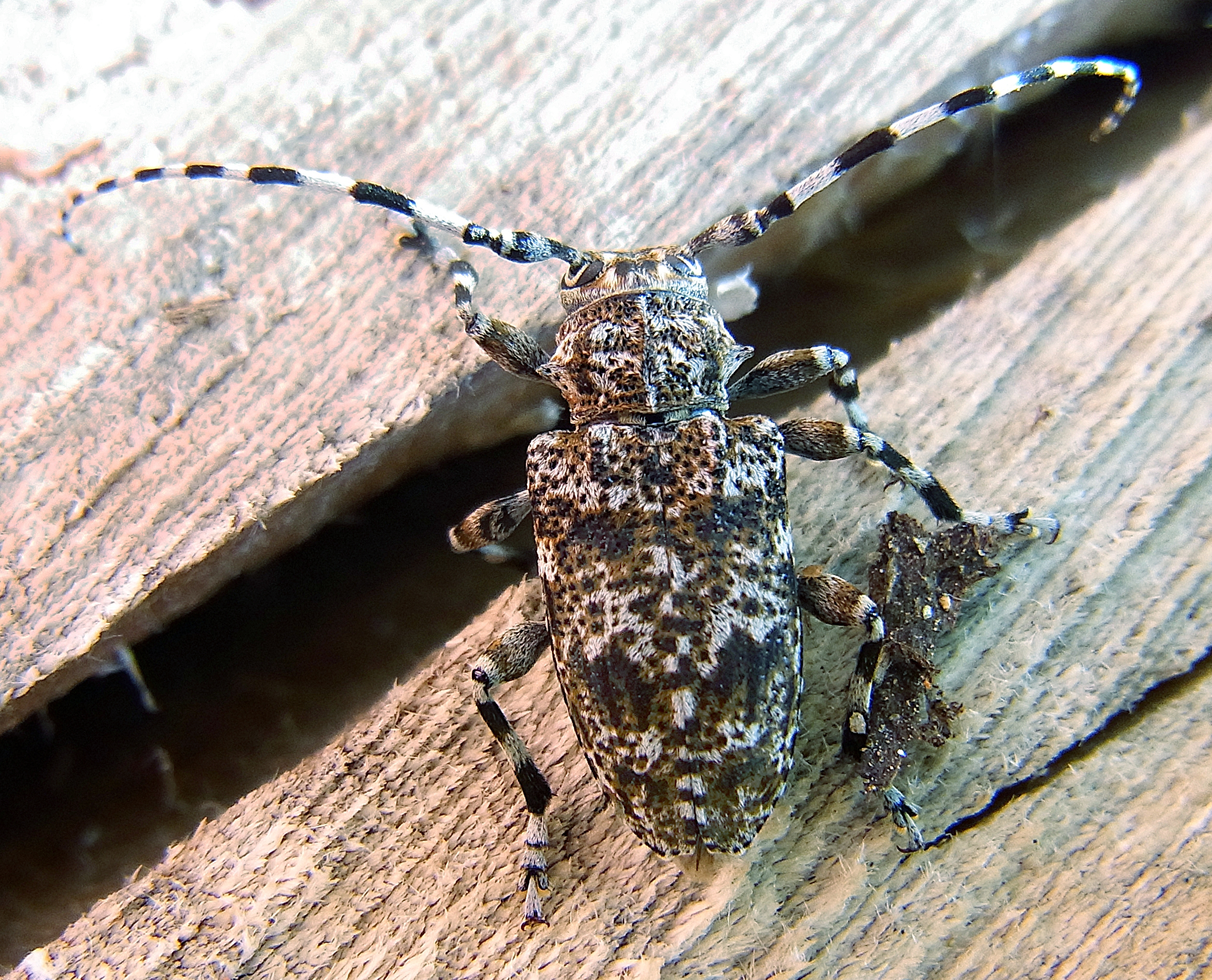 Aegomorphus clavipes from France, southwest of Millau